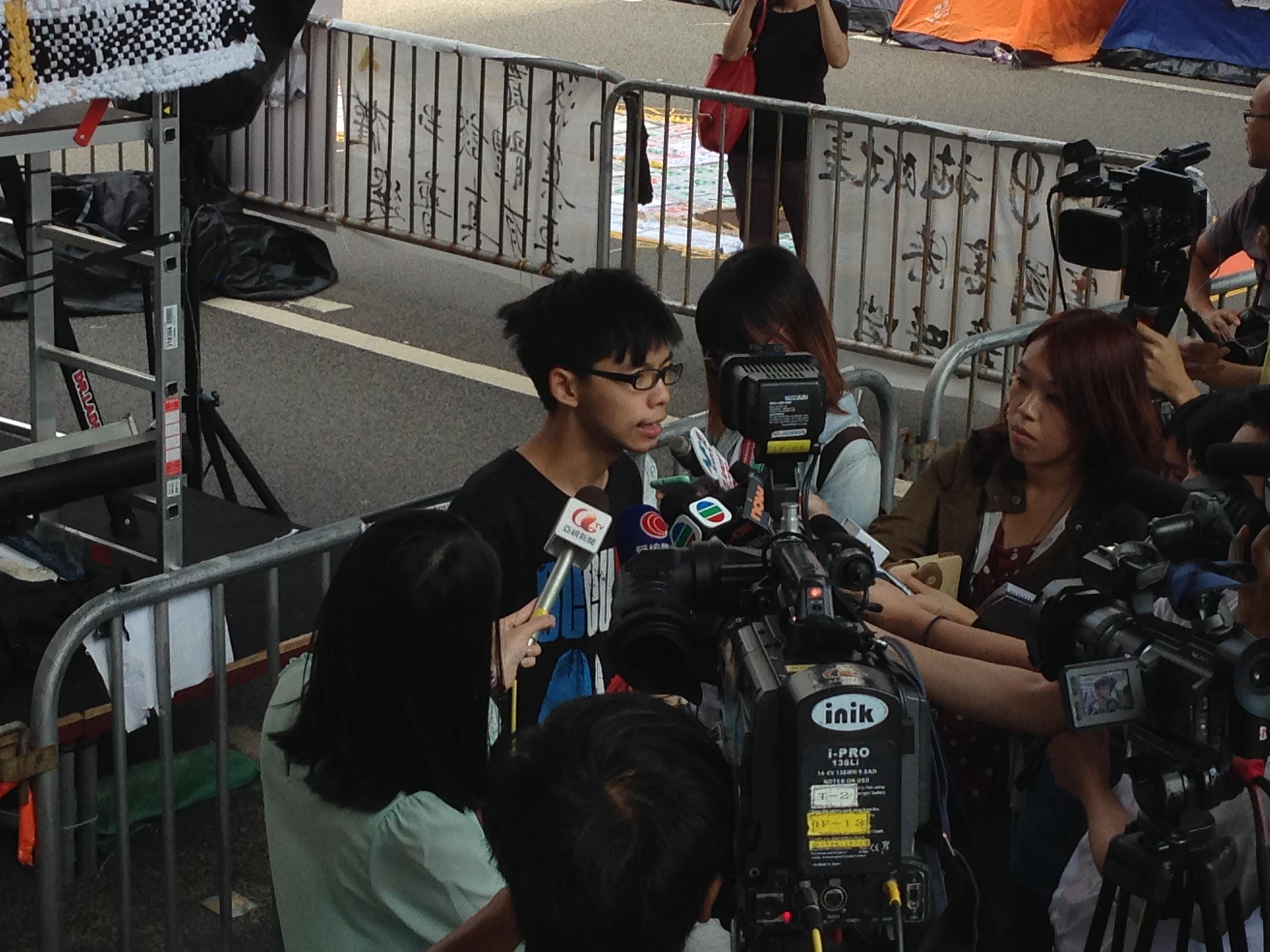 Joshua Wong during HK Protests 2014